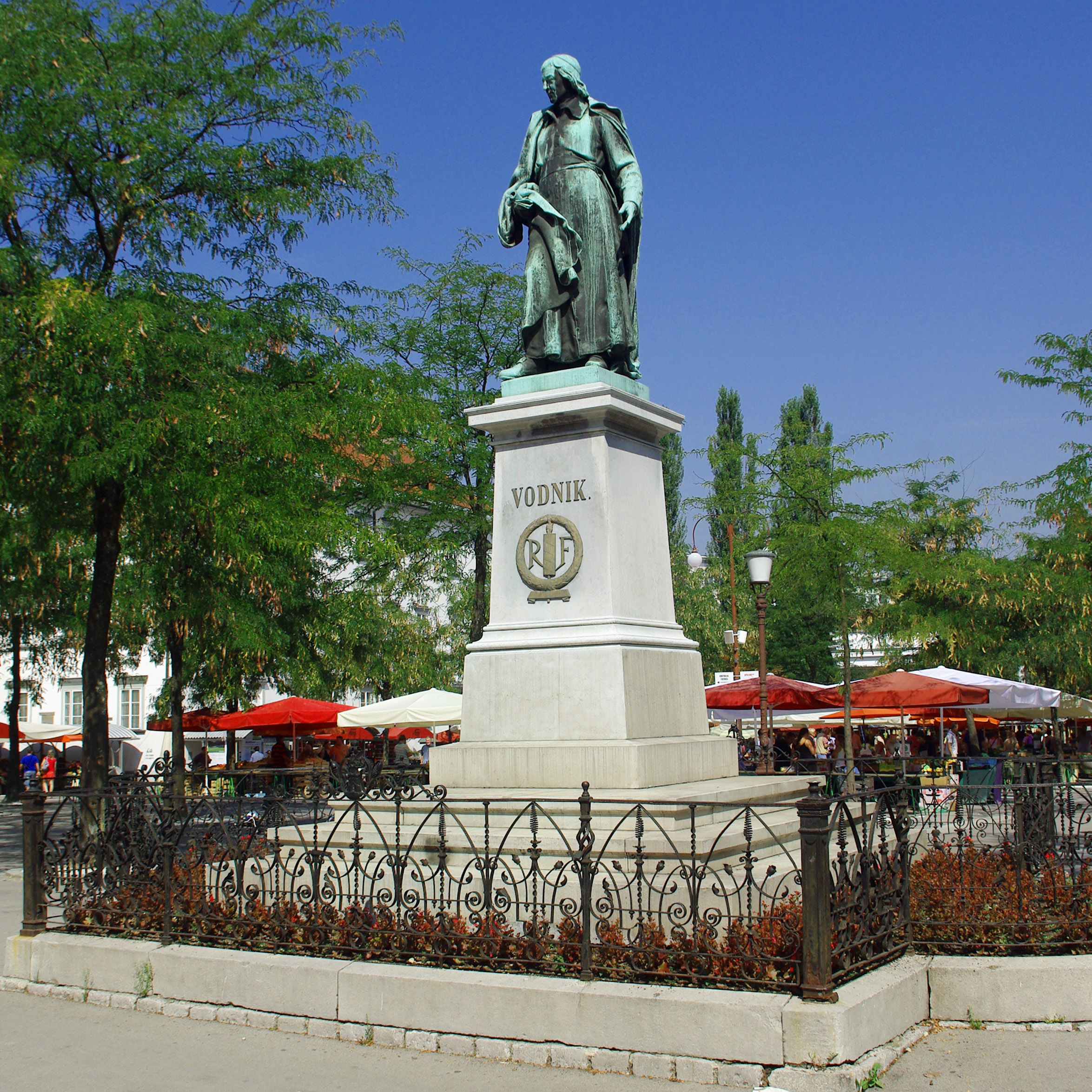 Statue of Slovene priest, schoolmaster and poet Valentin Vodnik (1758-1819) , placed at Vodnik Square (Vodnikov trg), Ljubljana, Slovenia. It was created in 1889 by Alojz Gangl as the first Slovene national monument.